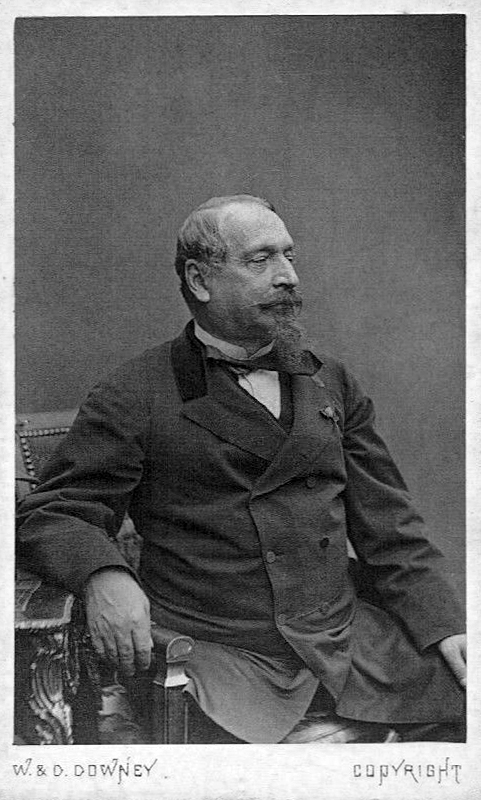 Louis-Napoléon Bonaparte, Emperor of the Second French Empire, during his exile at Chislehurst. Carte de visite 1871-72.